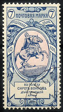 Russia semi-postal stamp that depicts the Monument to Peter the Great in St. Petersburg, 1904, 7 k.